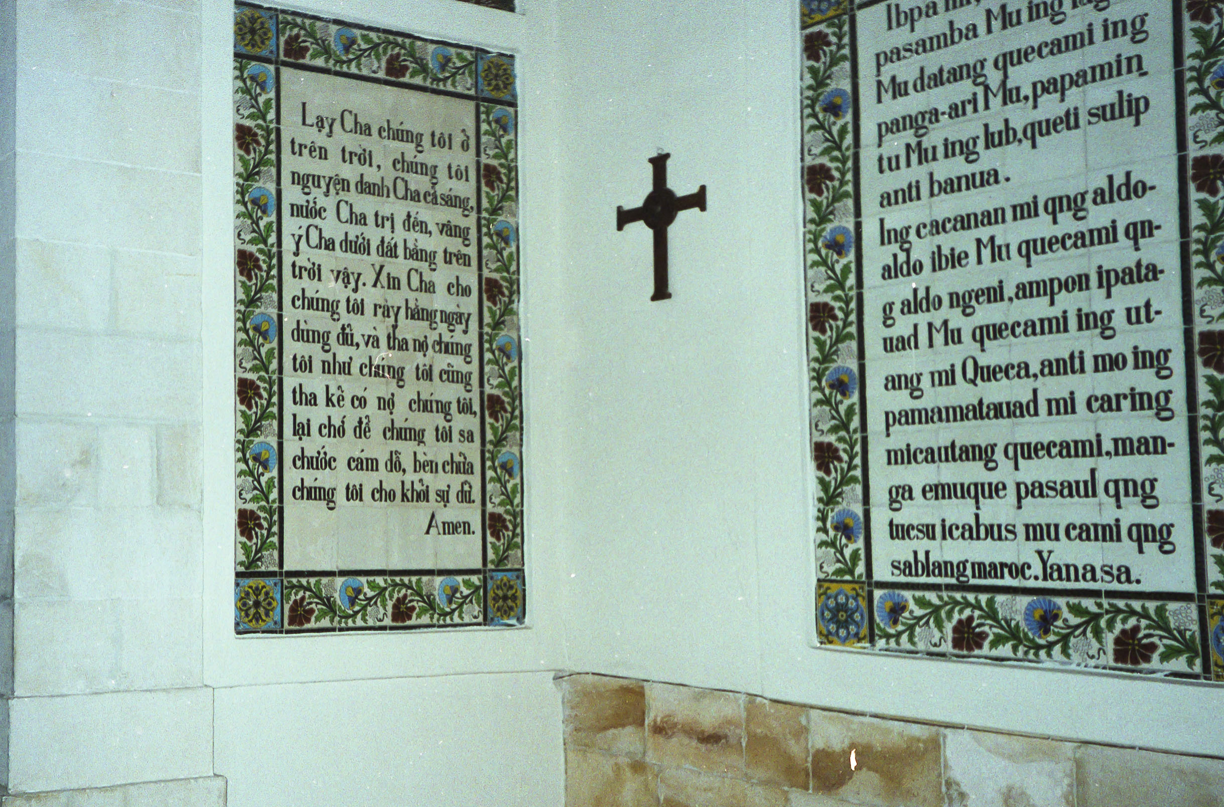 Church of the Pater Noster, Jerusalem: Vietnamese and Pampangan text of the Lord's Prayer.